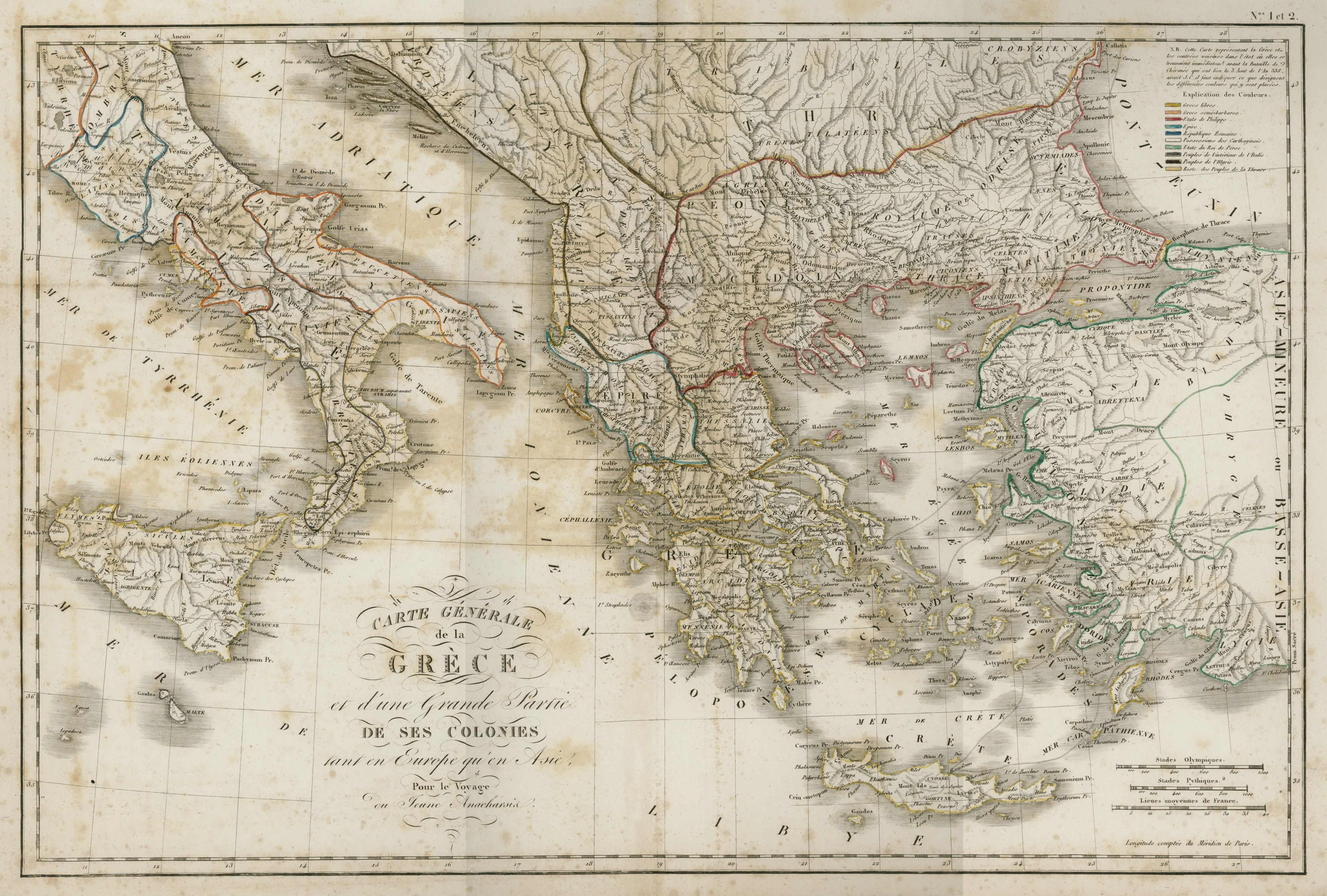 Jean Jacques Barthélemy. Voyage du jeune Anacharsis en Grèce, vers le milieu du quatrième siècle avant l’ère vulgaire. – Atlas, Paris, Abel Ledoux fils, 1832.